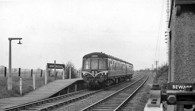 Bow Brickhill Station, with train. View SW, towards Bletchley; ex-LNW Bletchley - Cambridge line. The DMU is on a Cambridge - Bletchley service, which was cut back to Bletchley - Bedford when the section from Bedford (St Johns) to Cambridge was closed completely on 1/1/68. (It may yet be revived).